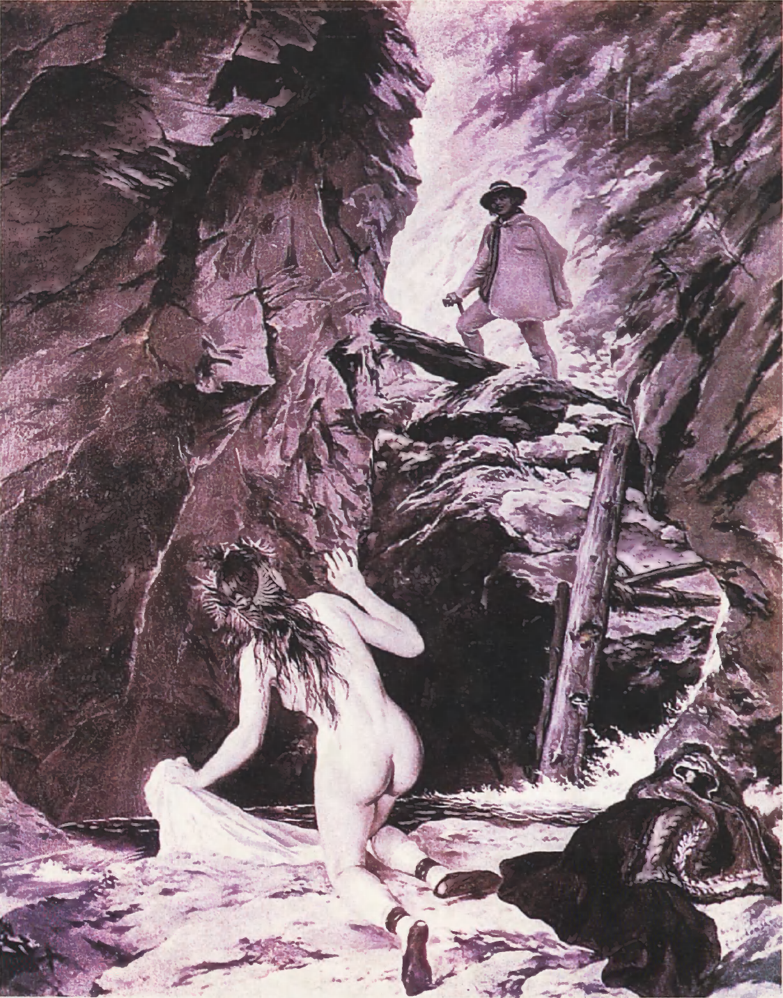 "Boginka tatrzańska" – image by Walery Eljasz-Radzikowski depicting an encounter between an old highlander (presumably Sabała) and a naked Slavic mountain spirit somewhere in Tatra Mountains. Late XIX century.